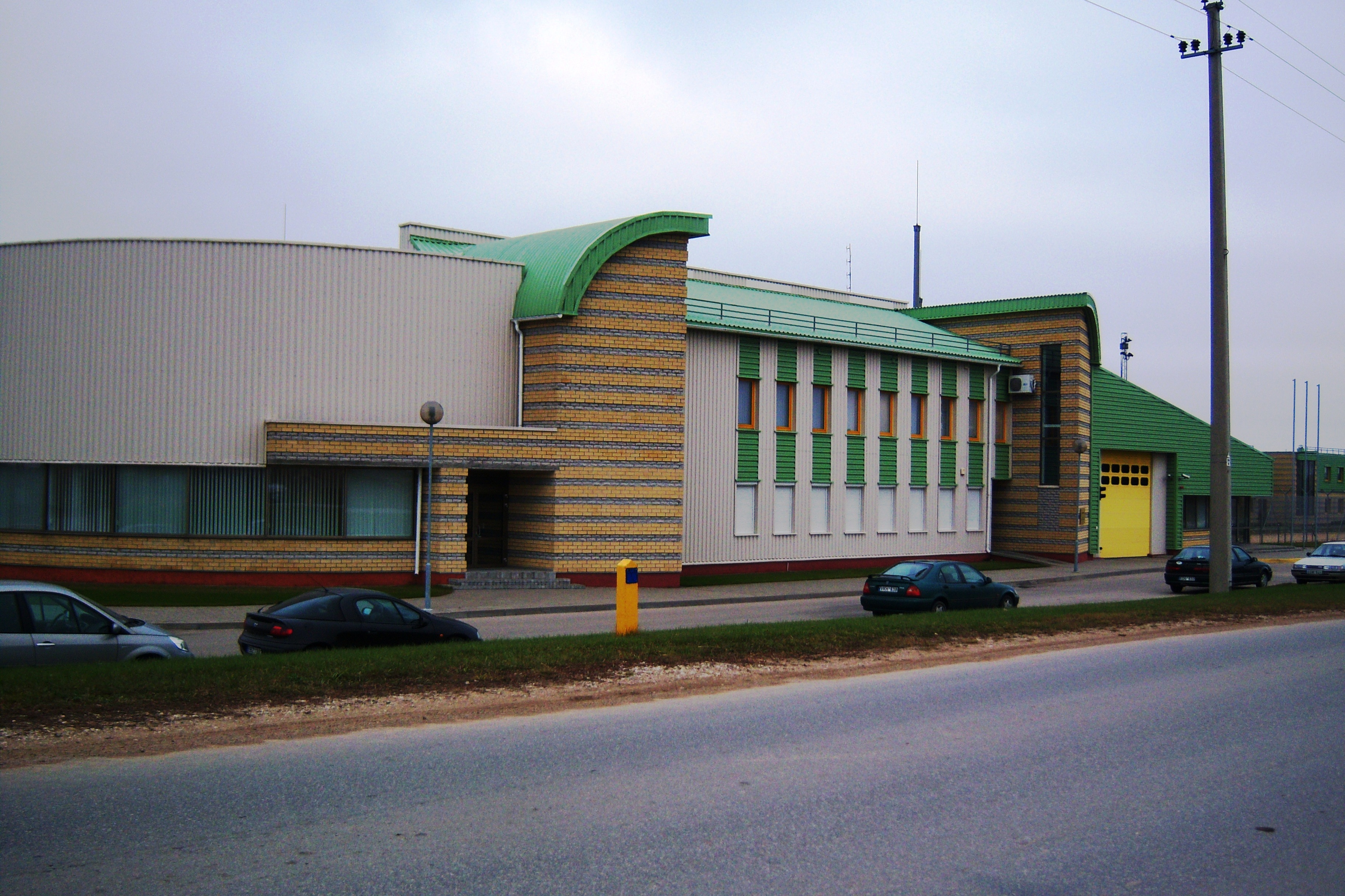 Giraitė Arms Ammunition Plant (GGG), Kaunas District. Lithuania